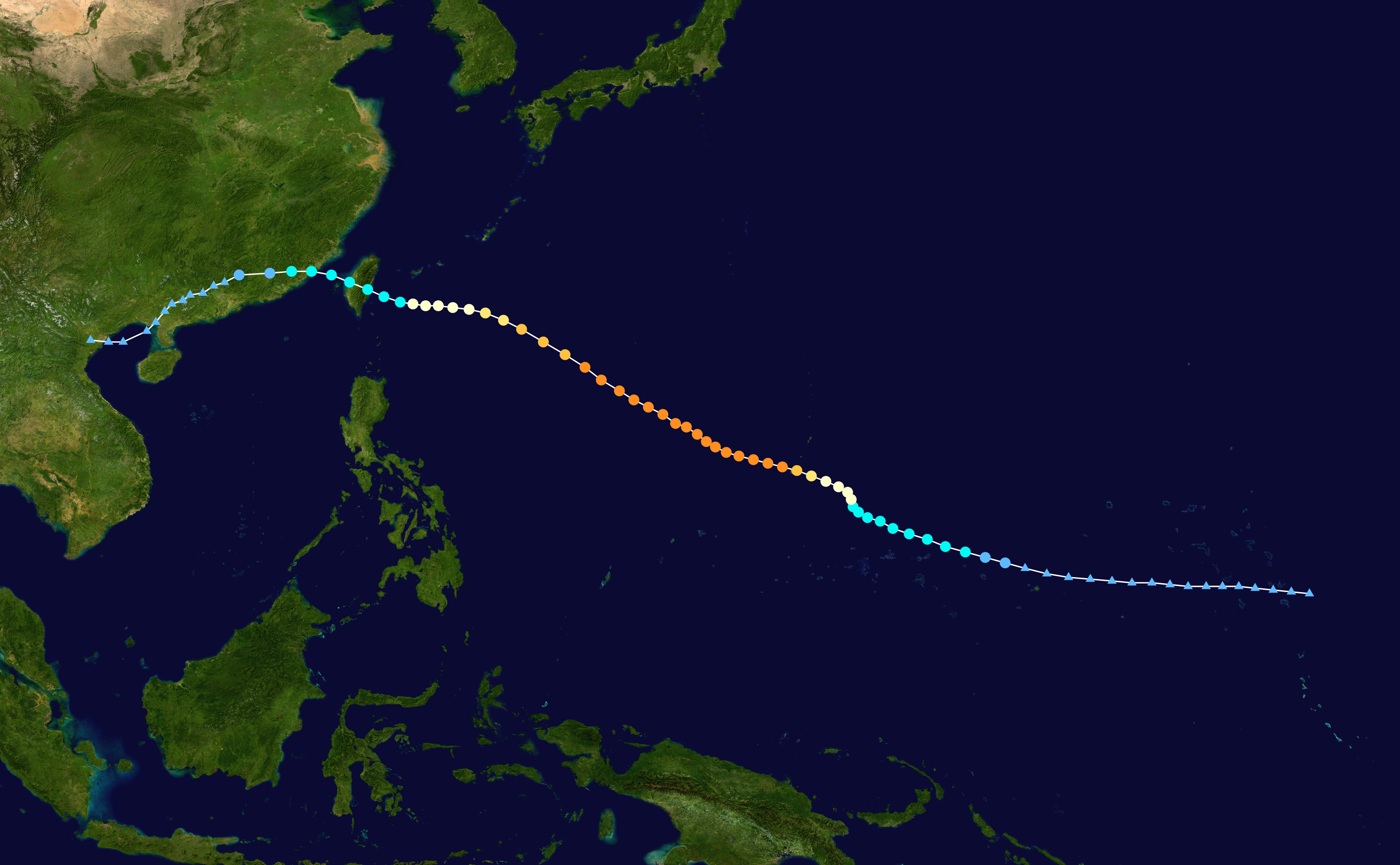 Typhoon Omar (1992) track. Uses the color scheme from the Saffir-Simpson Hurricane Scale.